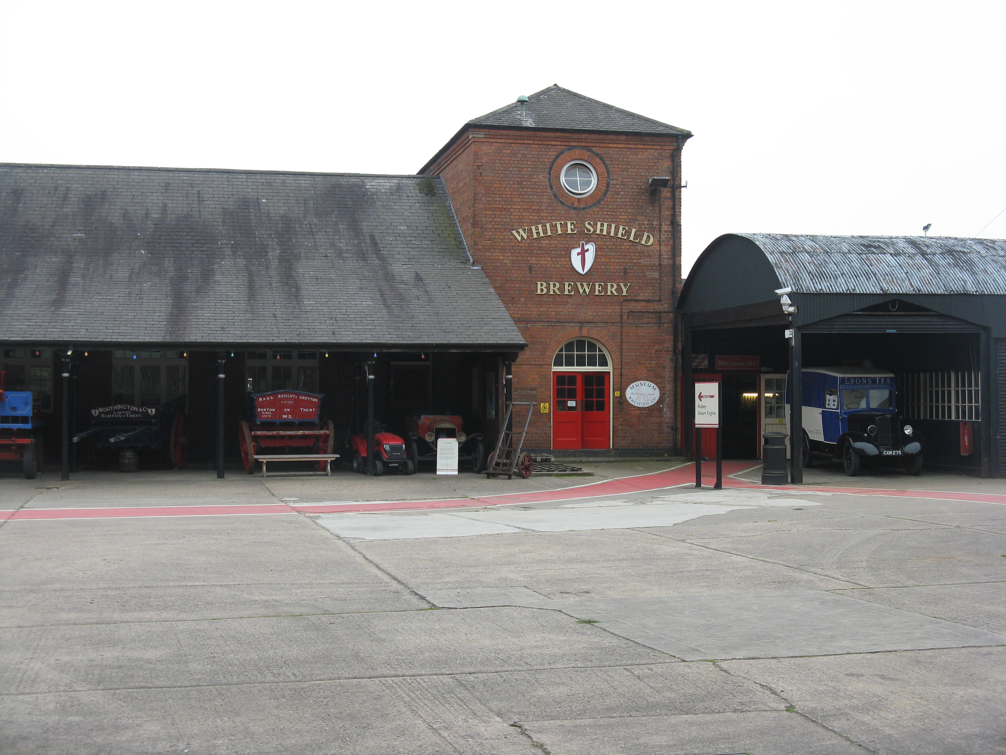 White Shield Brewery, CTYPE html PUBLIC "-//W3C//DTD XHTML 1.0 Strict//EN" " White Shield Brewery:: OS grid SK2423 :: Geograph Britain and Ireland - photograph every grid square! Geograph - photograph every grid square SK2423 : White Shield Brewery near to Winshill, Staffordshire, Great Britain.